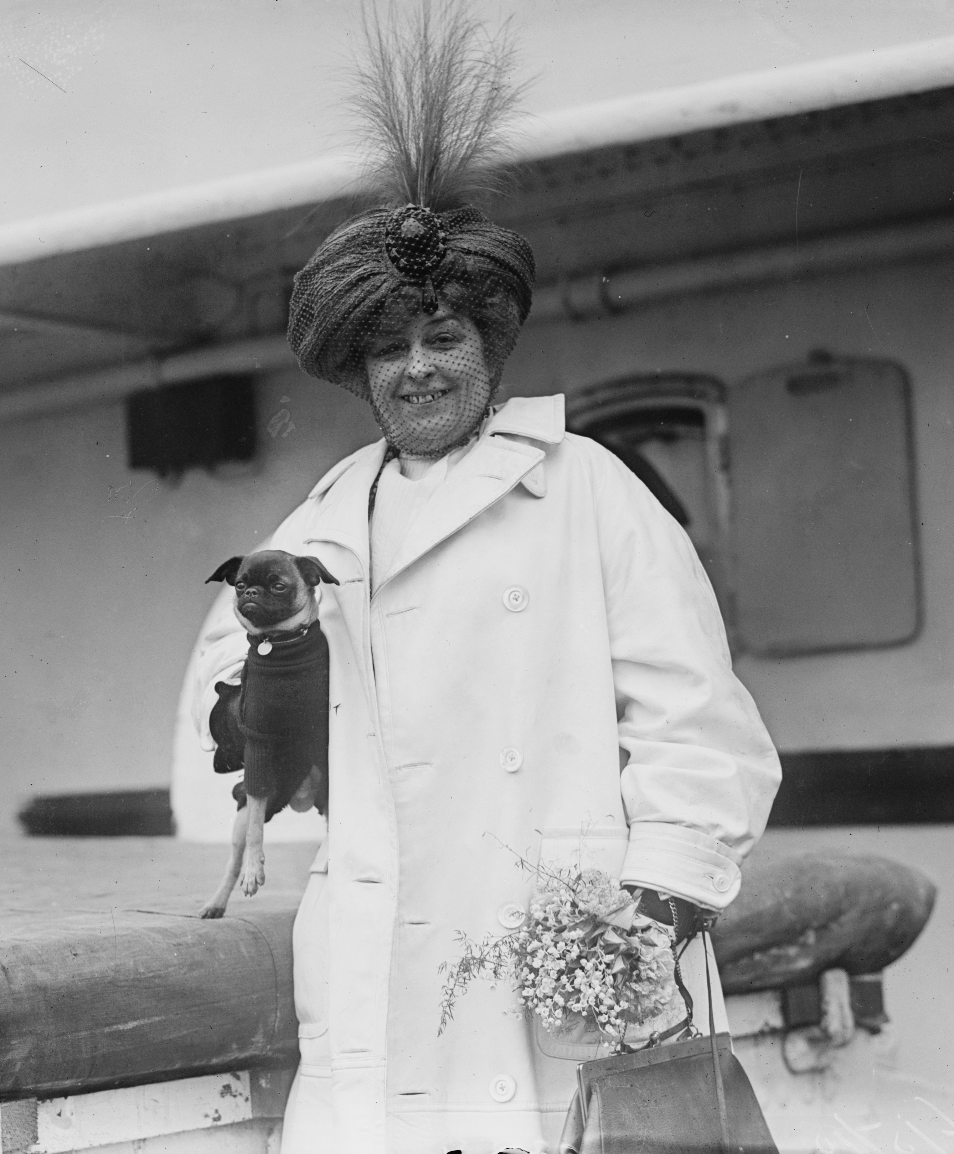 Amelia Bingham (1869-1927), American actress, wearing turban-style hat with feathers and veil, carrying a bouquet and a purse or travel bag in one hand and a dog under the opposite arm.